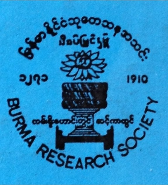 Logo of Burma Research Society, now defunct research society on Burmese history